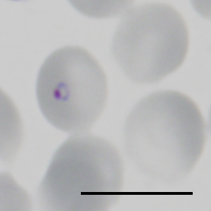 Ring stage Plasmodium falciparum within an infected erythrocyte, on a thin smear staind with CytoQuick (modified Field's staining). Bar: 10 μm